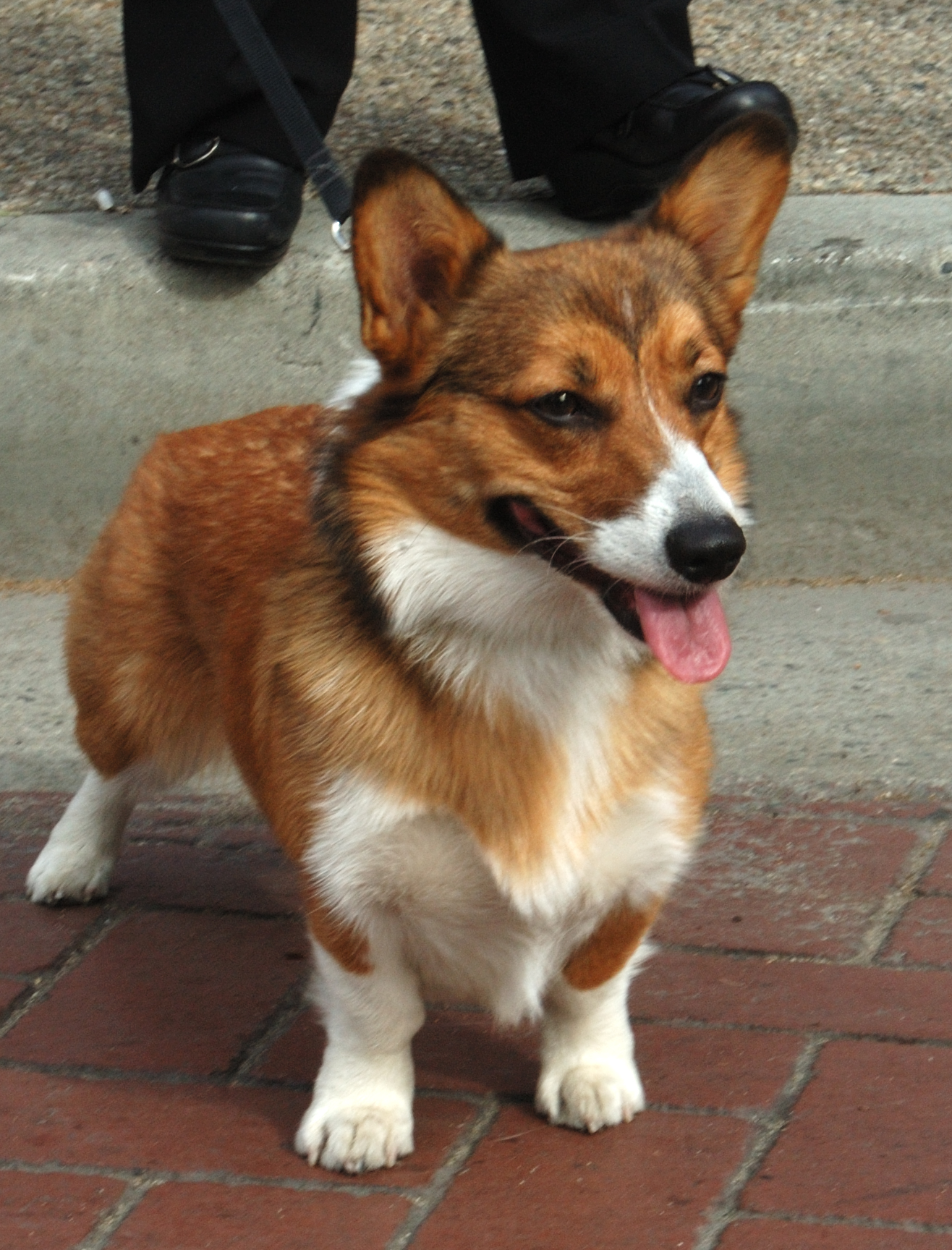 A Pembroke Welsh Corgi.